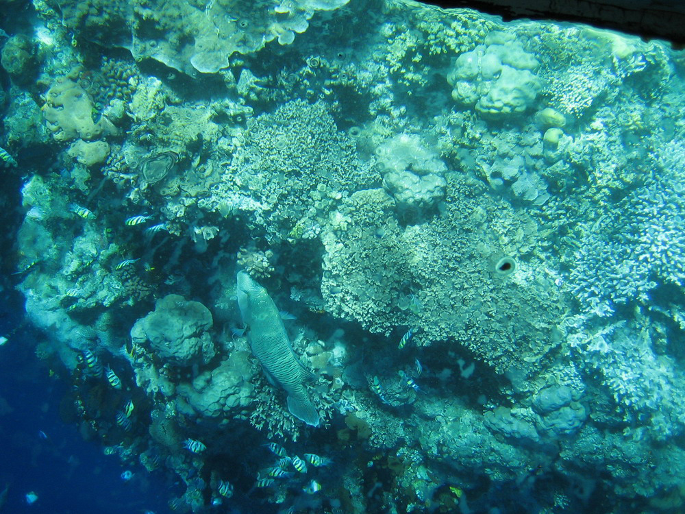 Bunaken marine park at North Sulawesi, Indonesia.